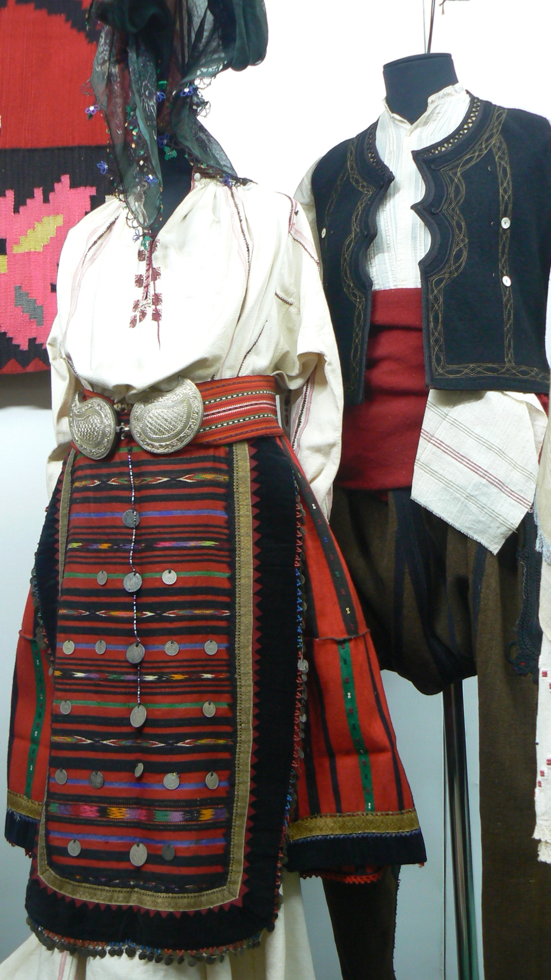 19 century female costumes from Vratsa region. Exhibits of the Ethnographic complex "Saint Sophronius of Vratsa". Vratsa, Bulgaria